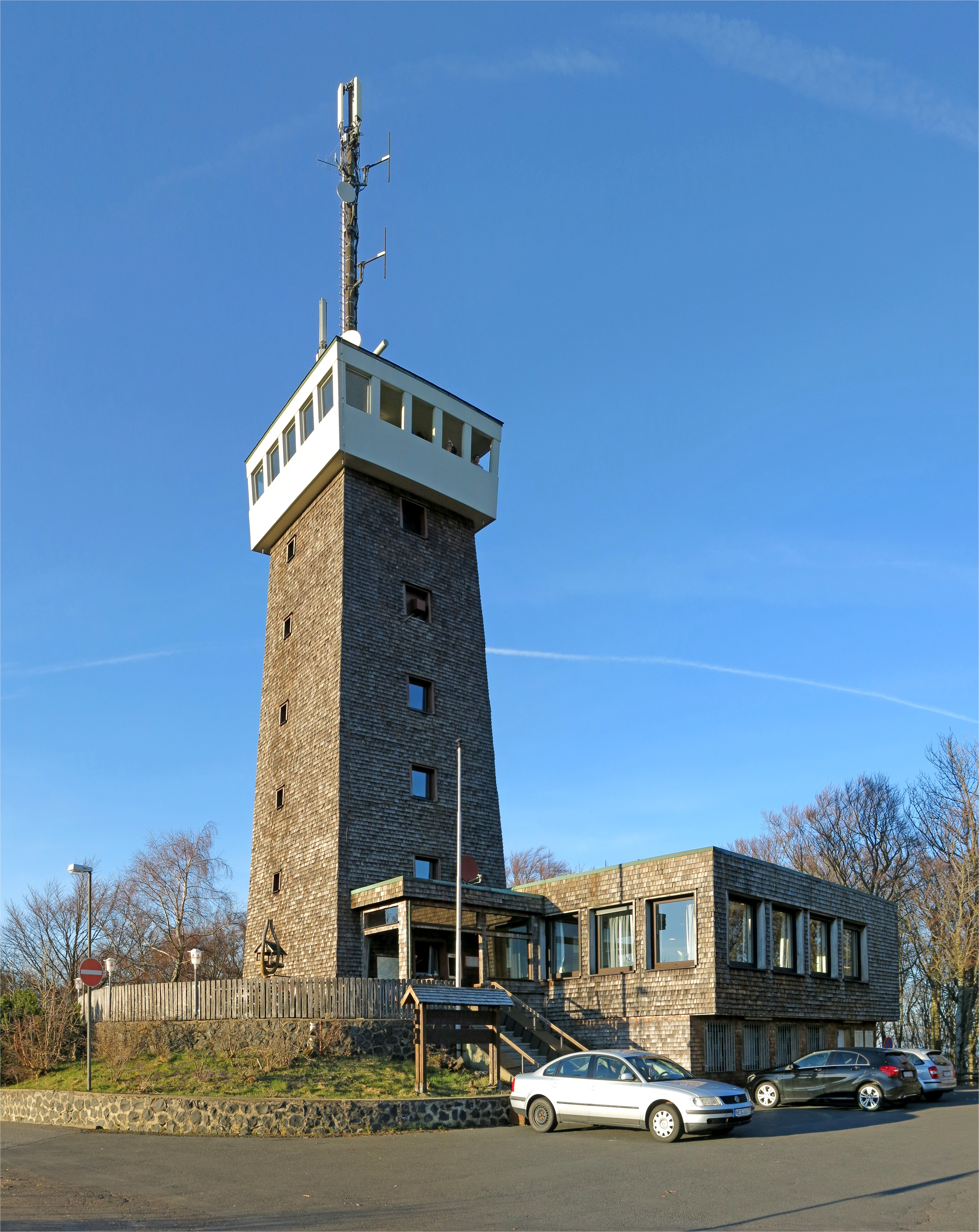 Lookout tower on the Rother Kuppe in the Rhön Mountains